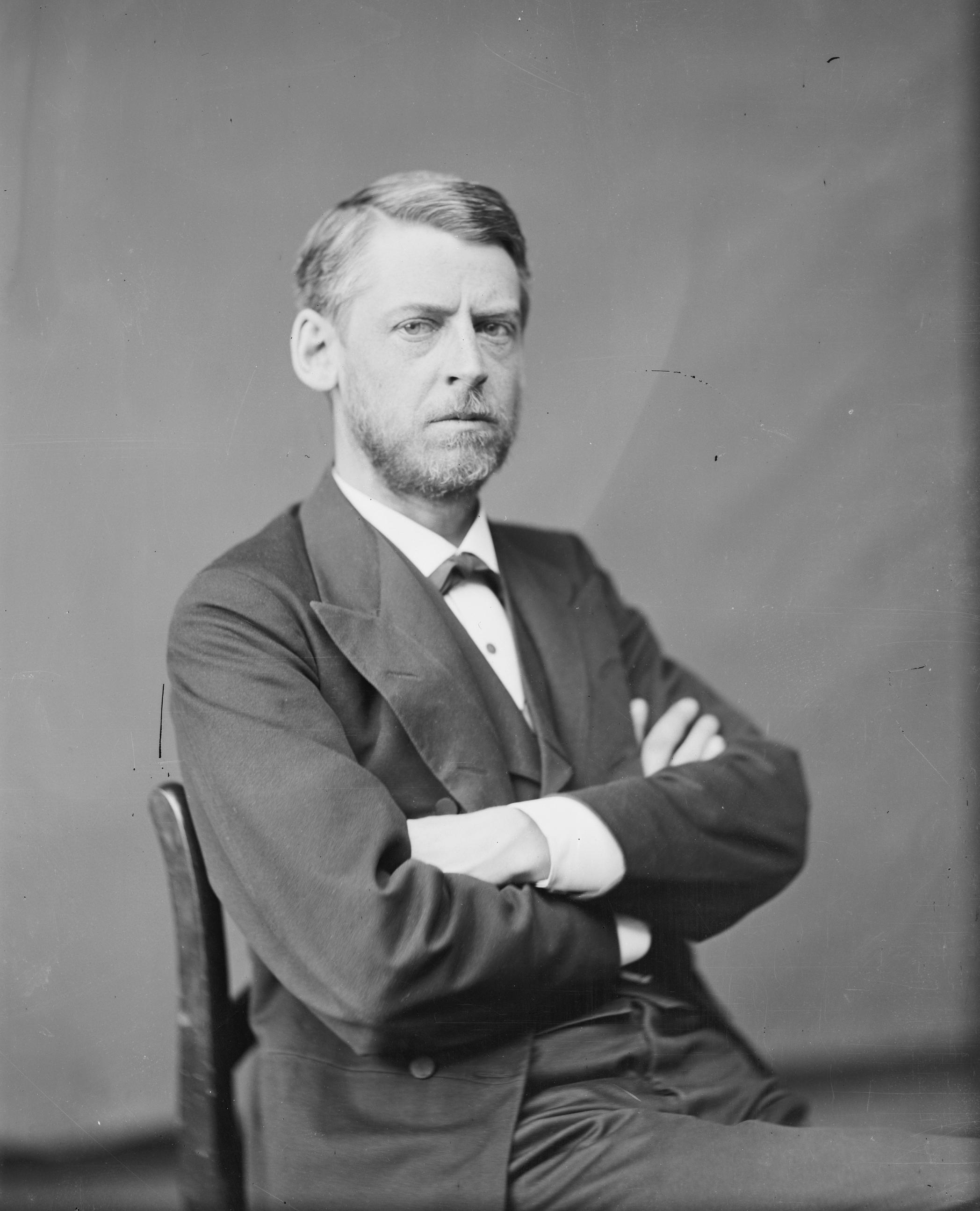 William E. Chandler. Library of Congress description: "Chandler, Hon. Wm E. of N.H. Secty of Navy in Arthur Adm."